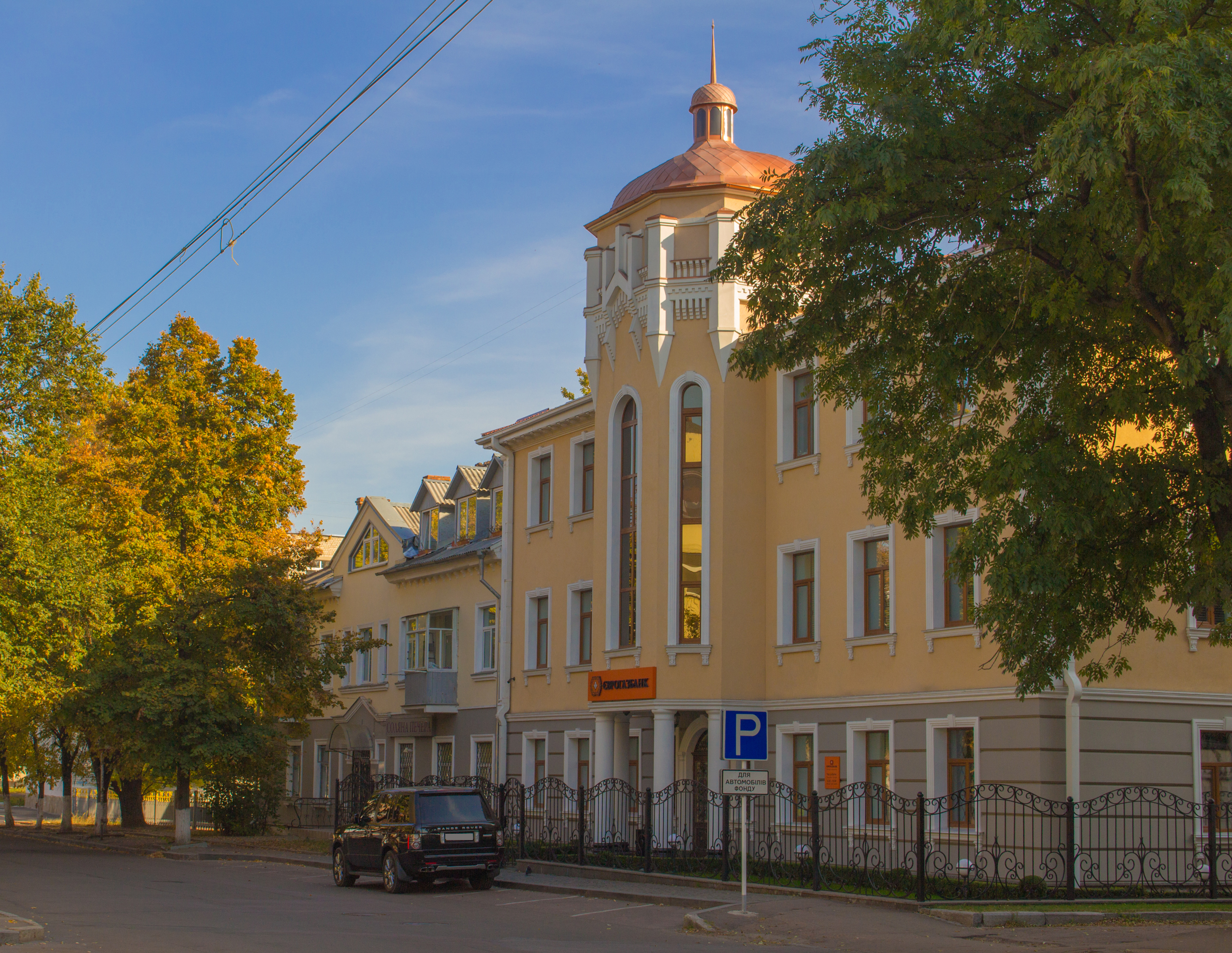 Гnknown house in Zhytomyr